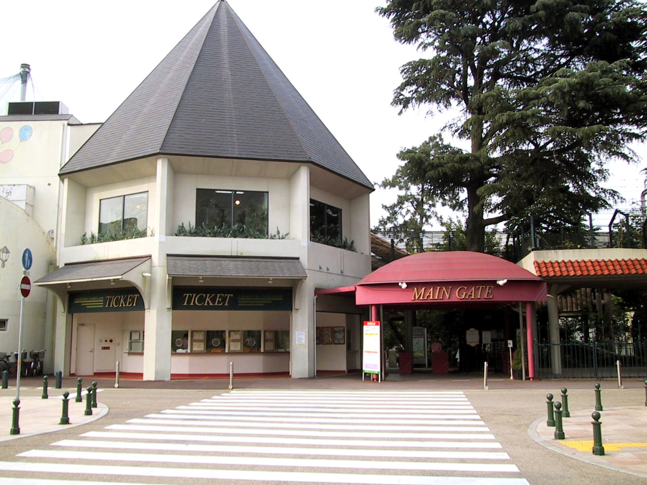 Takarazuka Family Land,Sakaemachi Takarazuka-city Hyogo JAPAN.